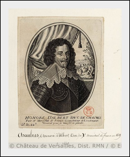 Artist UnknownUnknown artistTitle